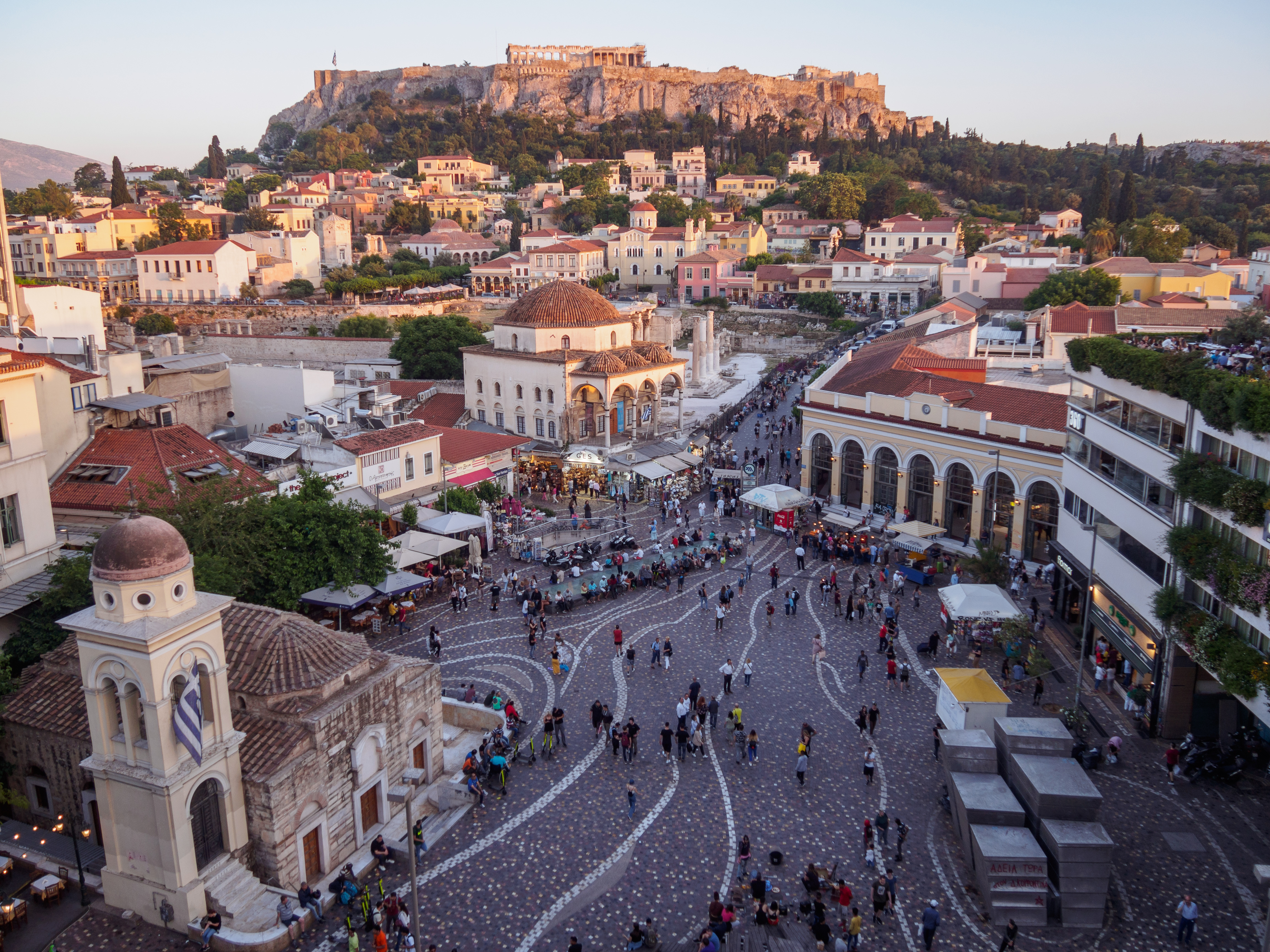 View of Monastiraki square towards the Acropolis of Athens.